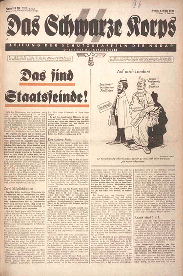 Copied from Image:Das Schwarze Korps 1937.jpg: "..."